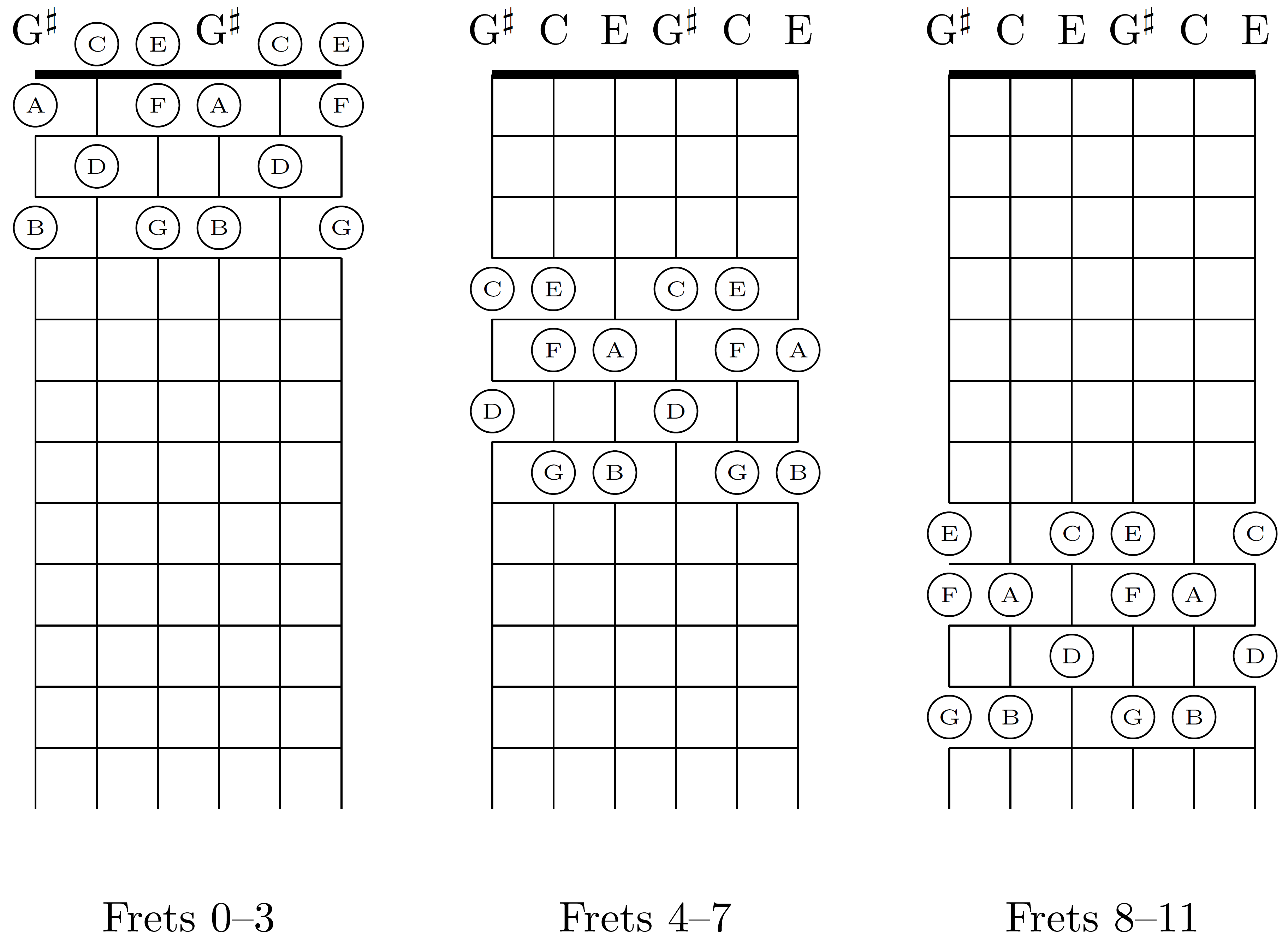 The fretboard of a popular major-thirds tuning is displayed, with natural notes indicated for each of three hand positions (frets 0-3, 4-7, 8-12). The segmentation highlights the regular tuning with a musical interval of major thirds (four semitones).